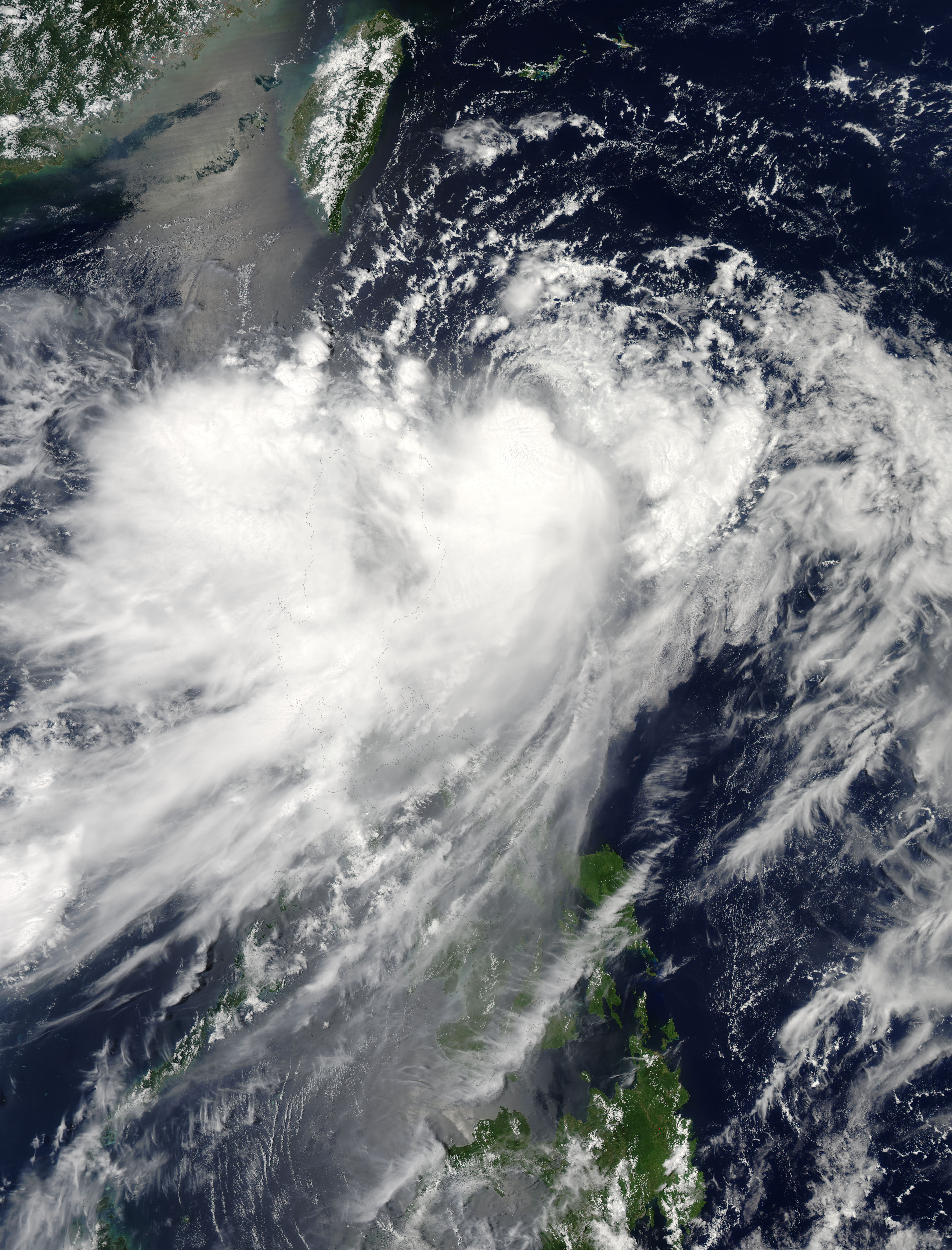 Tropical Storm Kong-rey on August 27, 2013